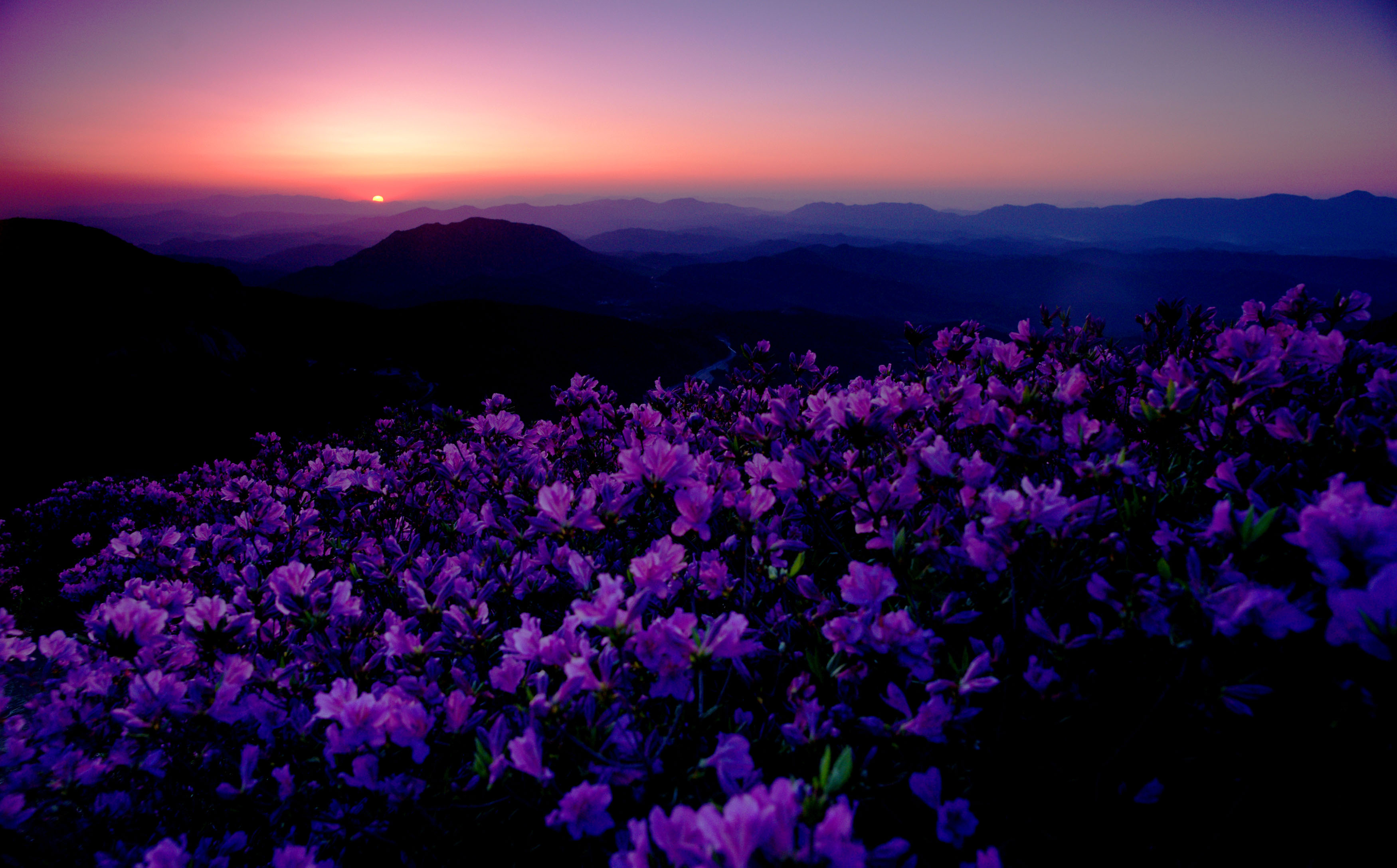 SONY DSC 합천황매산정상에서 바라본 황매산의 일출, 철쭉군락너머 산등성이 사이로 아침해가 떠오르고 있다.